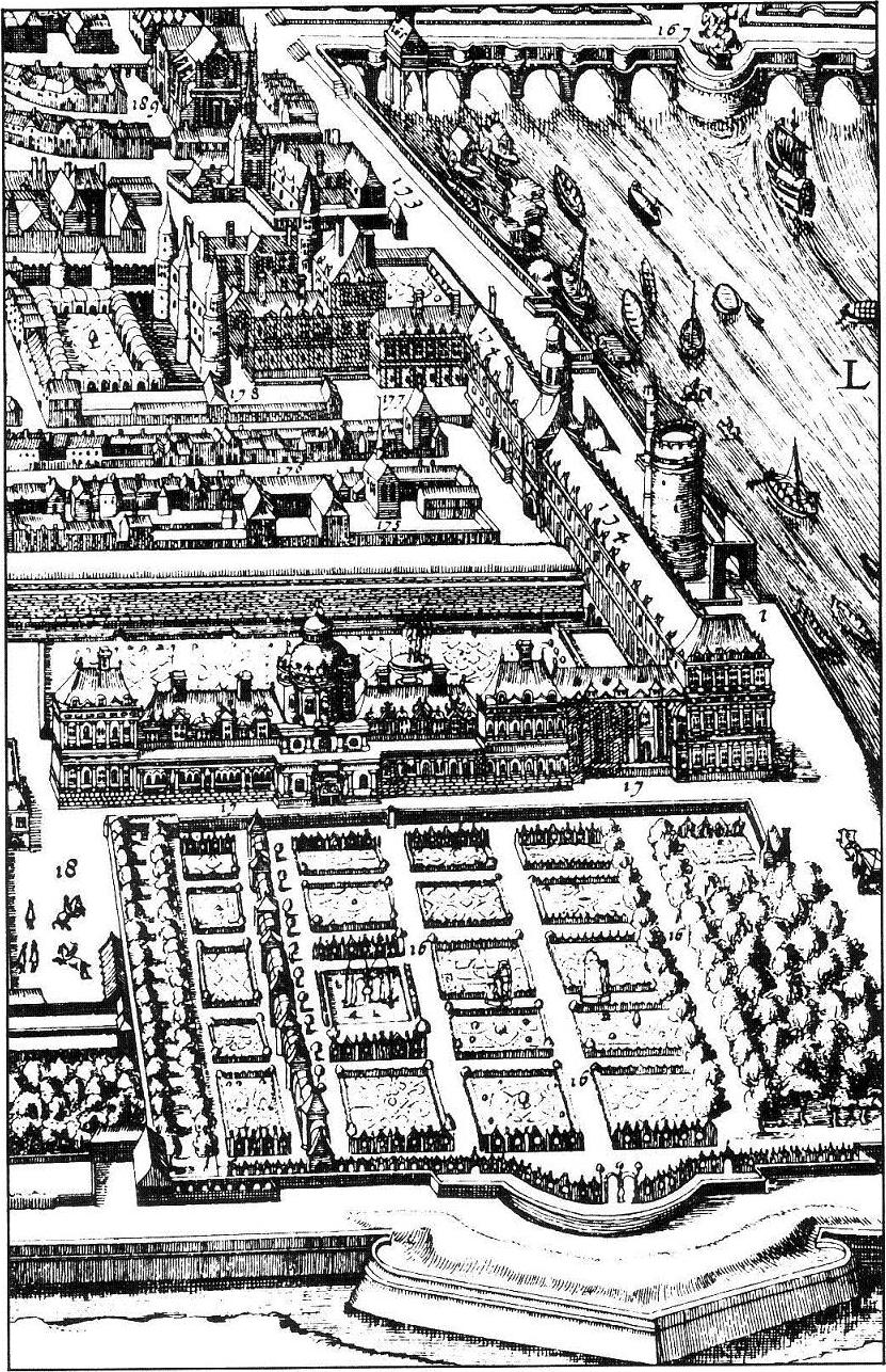 Plan of Paris, detail (Louvre, Grande Galerie, Tuileries Palace, Jardin des Tuileries).